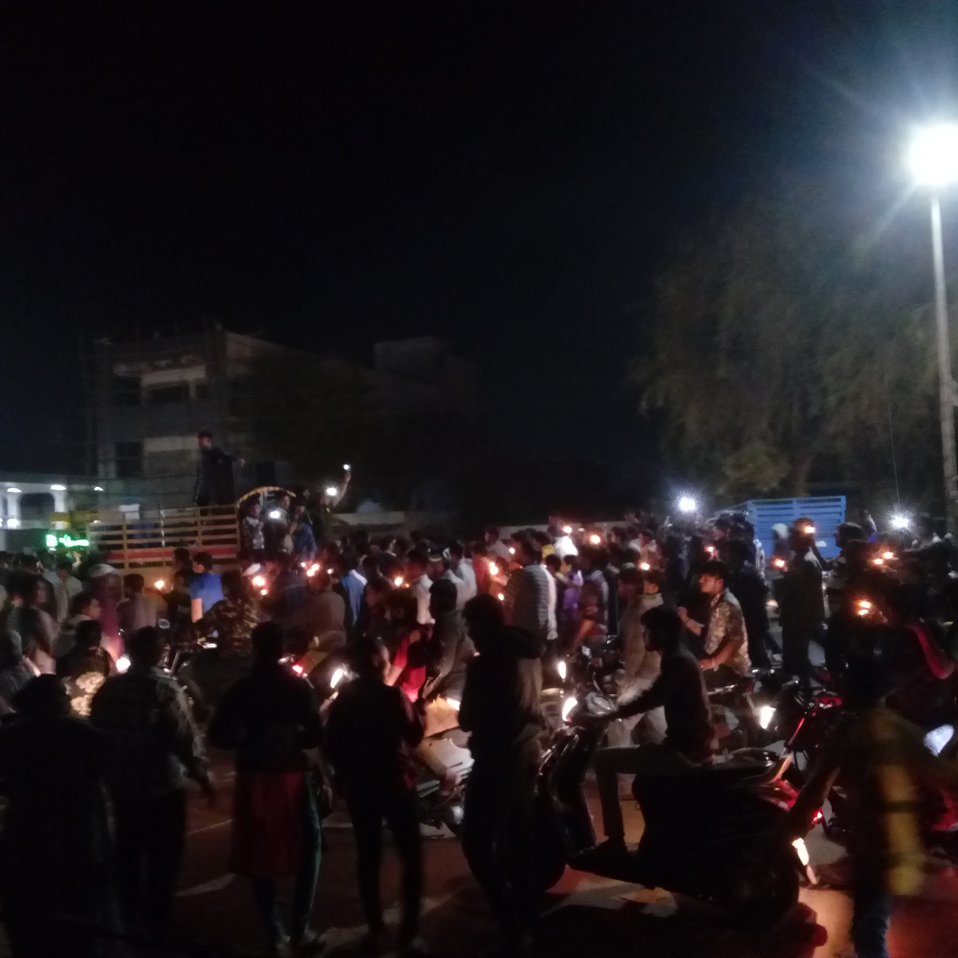 Candle Light March organised in Mehsana, Gujarat, India in wake of en:2019 Pulwama attack